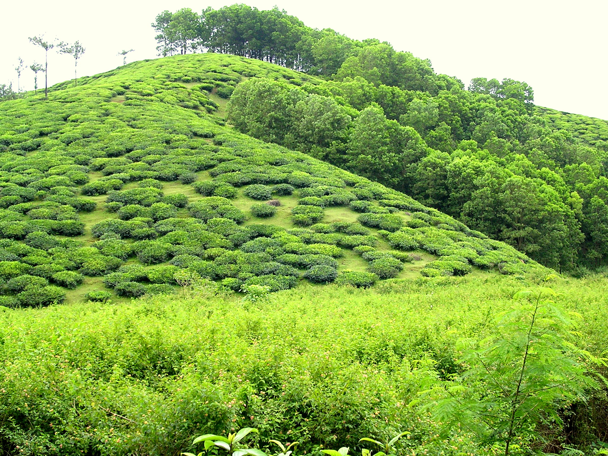 Tea Plantation